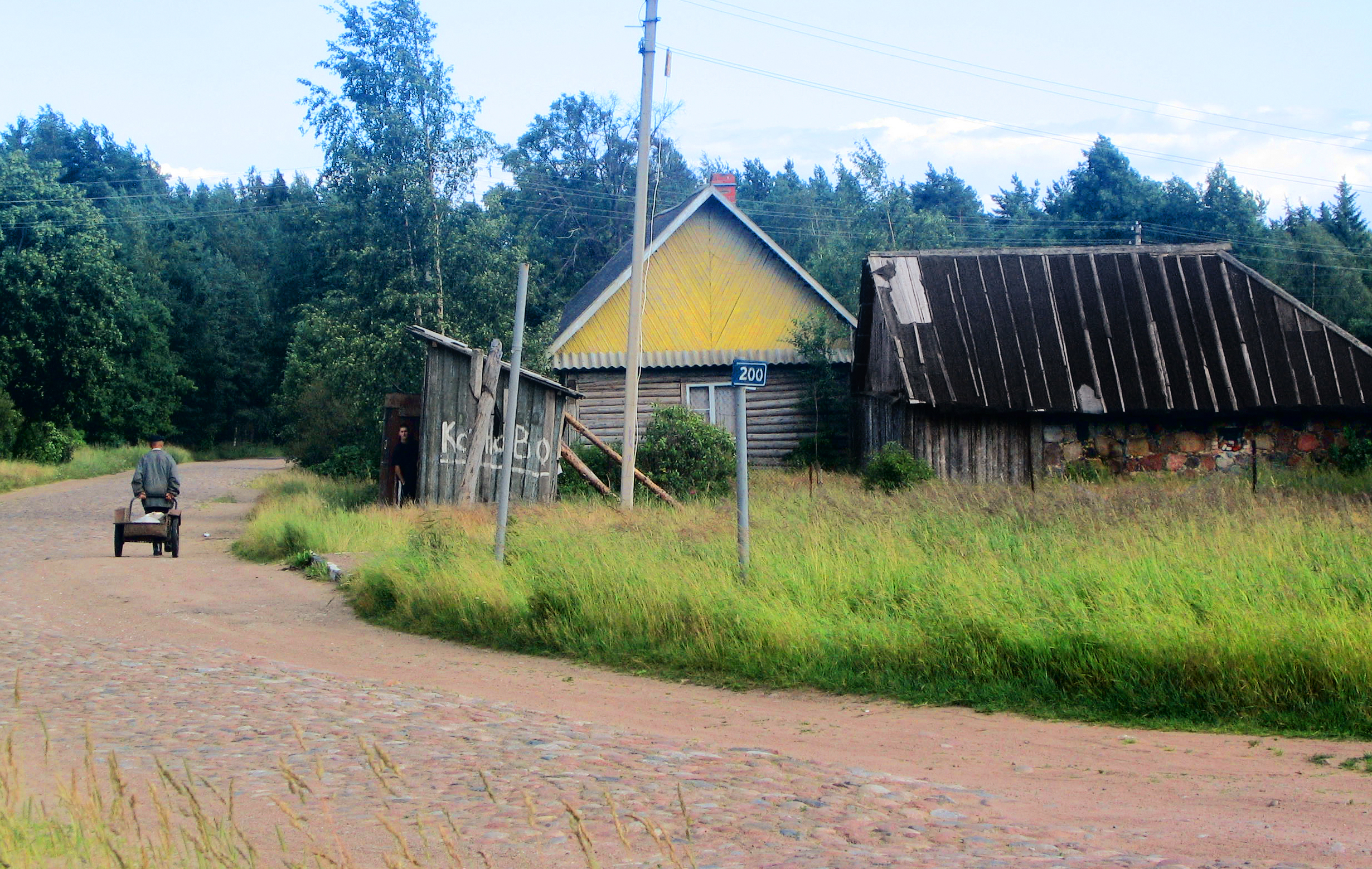 Конново 2007